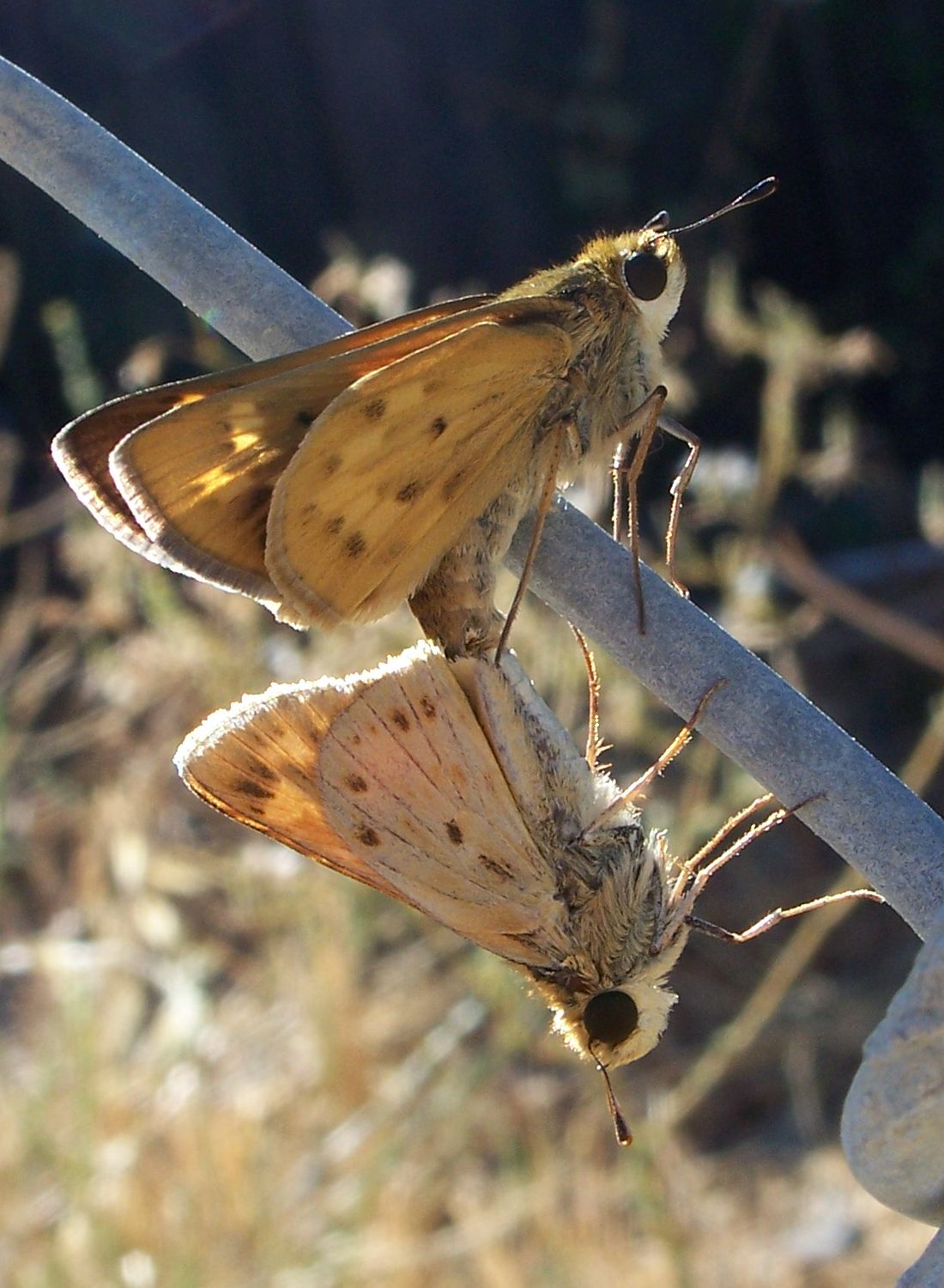 Fiery Skipper. Copulating